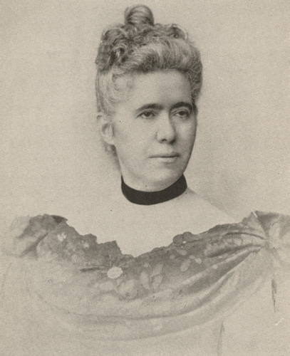 Photographic portrait of Kate Mason Rowland